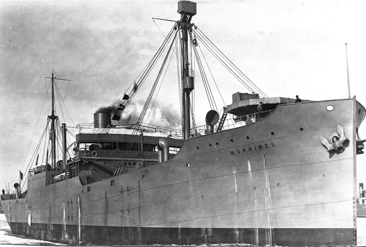 Commercial cargo ship SS Munaires, possibly photographed at the time of her inspection for possible US Navy service by the 5th Naval District. She later served in the US Navy as USS Munaires (ID-2197).